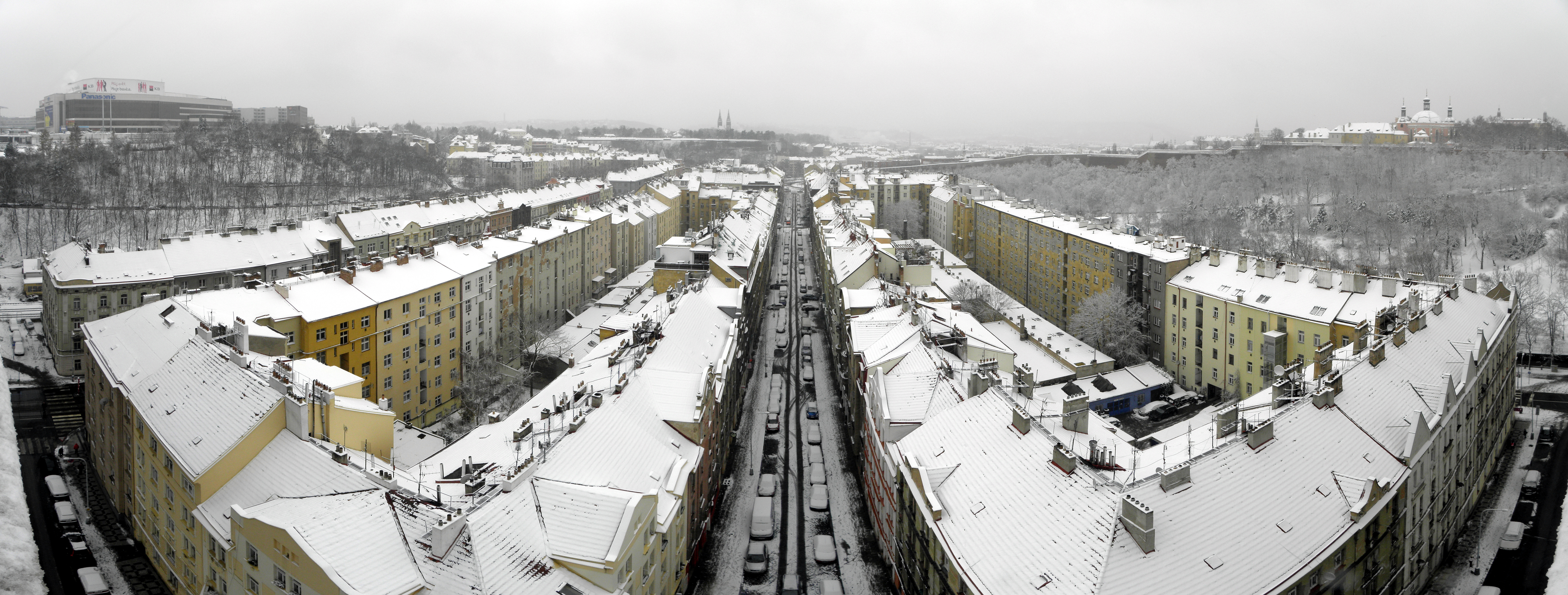 Nusle Valley from Nusle Bridge.